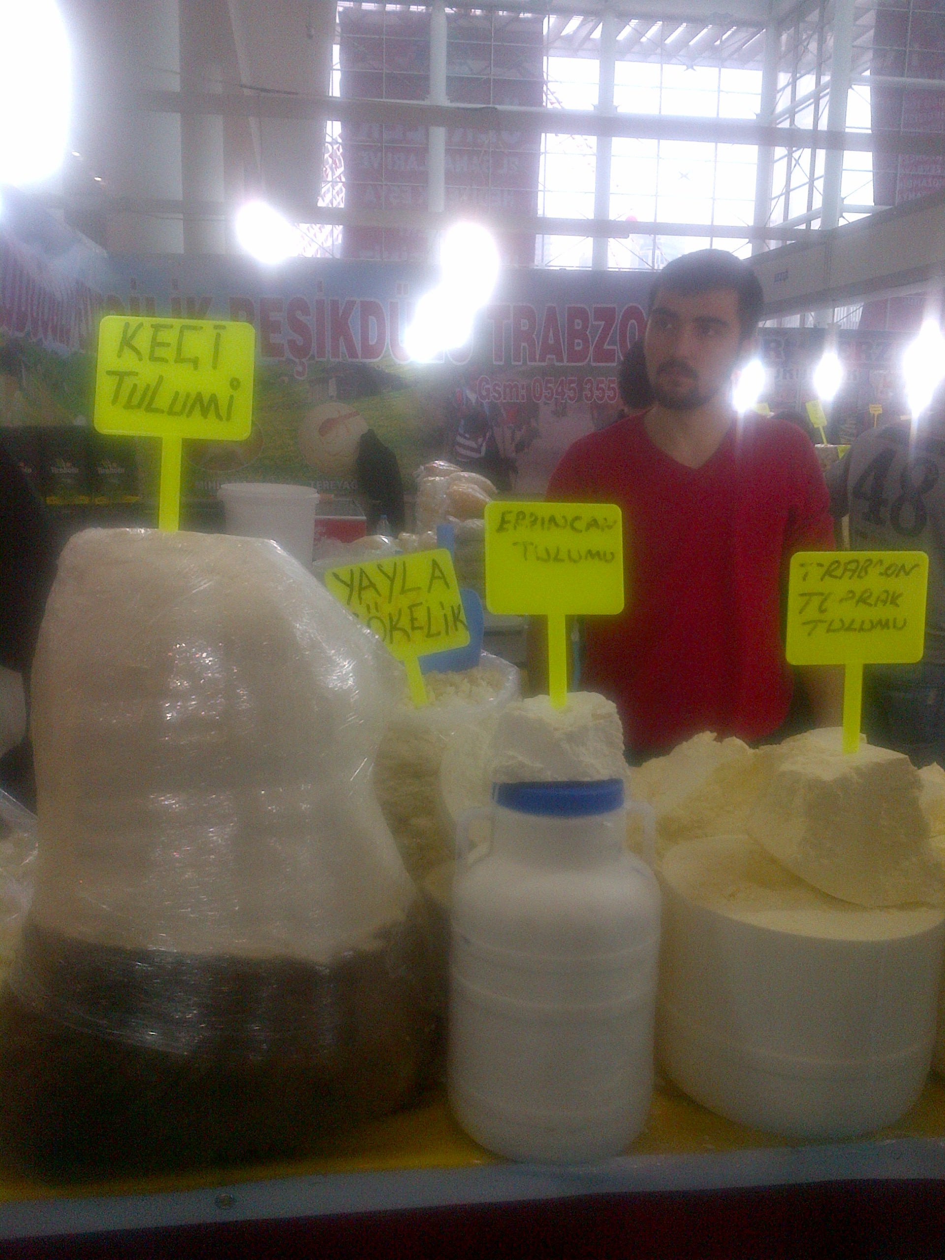 Cheese of Turkey